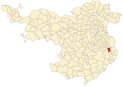 Palau-Sator